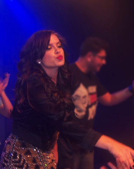 Lua Blanco especially participation, a musical.